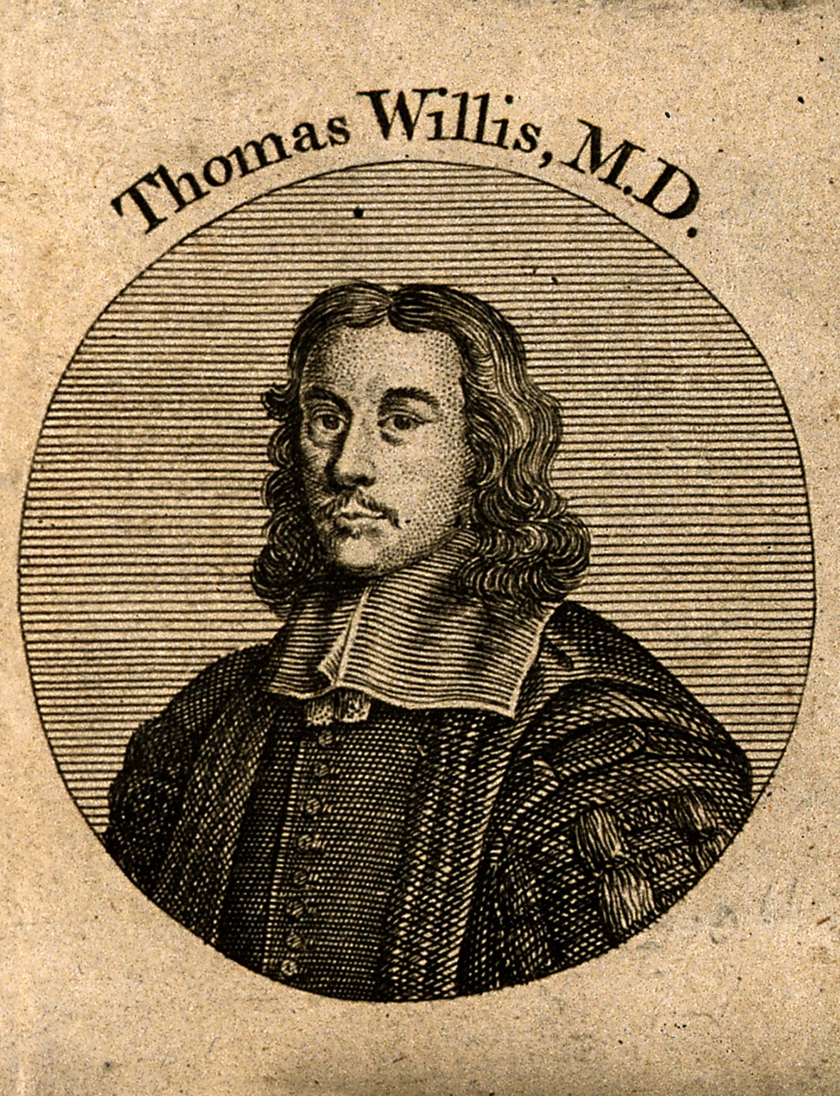 Thomas Willis. Line engraving by W. Read after D. Loggan. Iconographic Collections Keywords: Thomas Willis